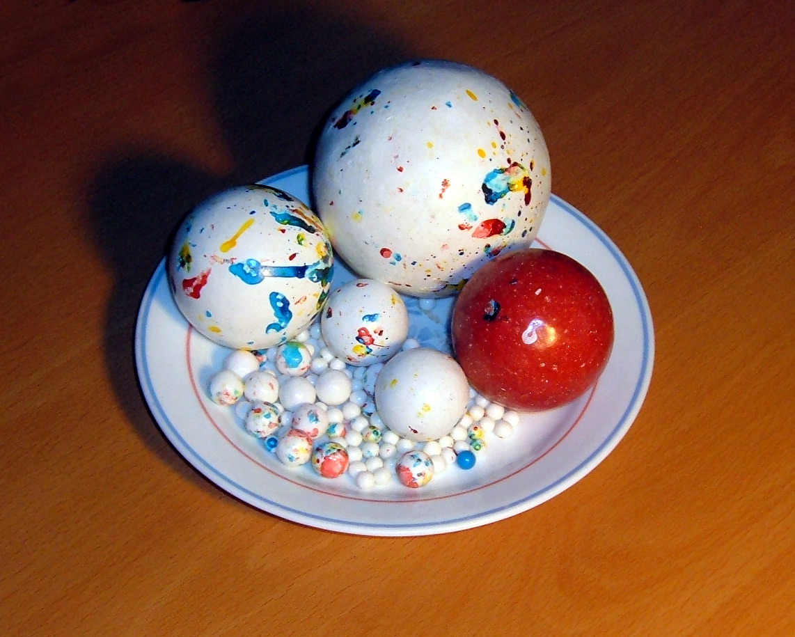 A photograph of a plate of jawbreakers (or gobstoppers) of assorted sizes and colors. The largest in the back is 3 inches (~7.5 cm) in diameter.